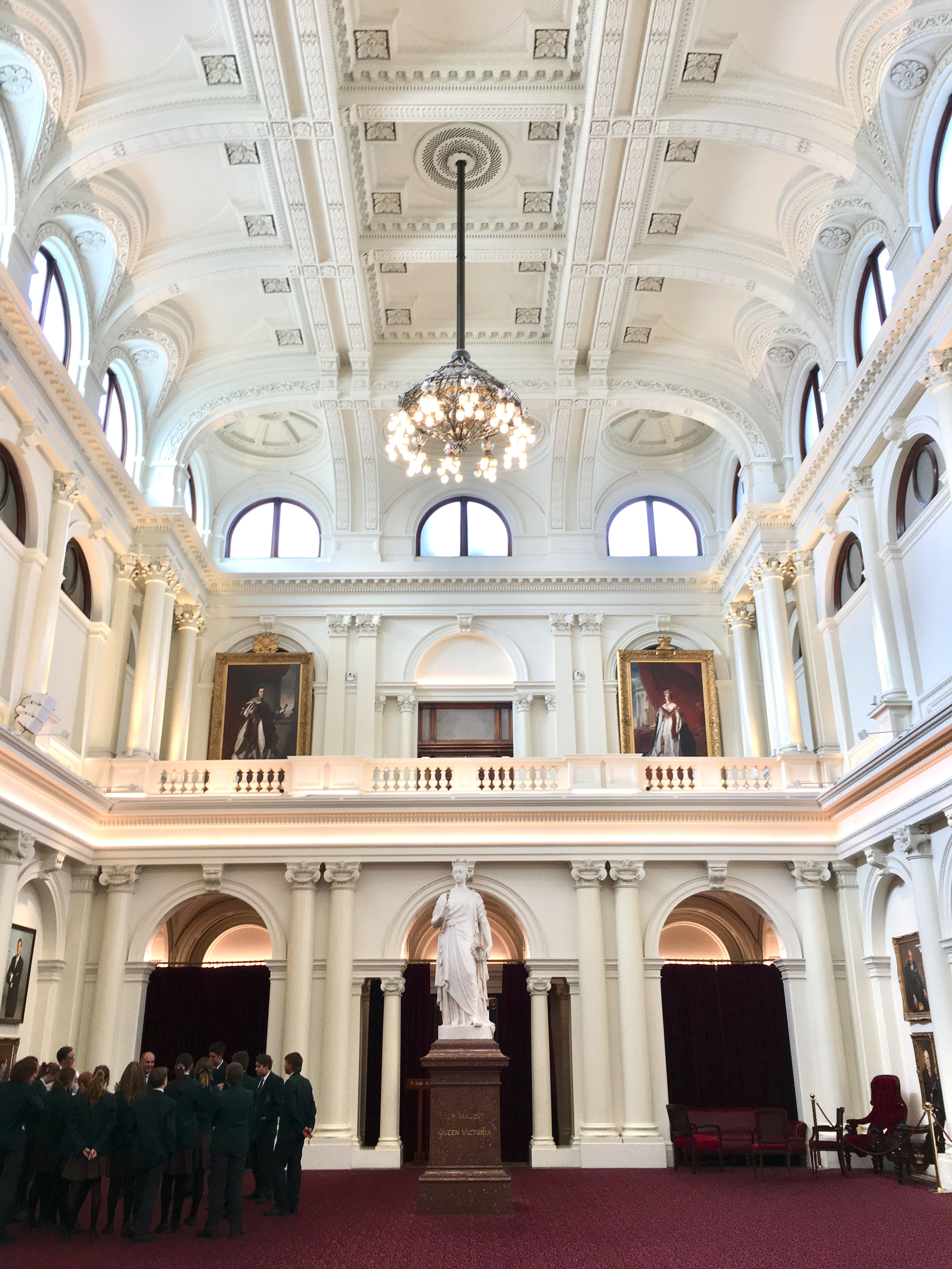 Parliament House Melbourne